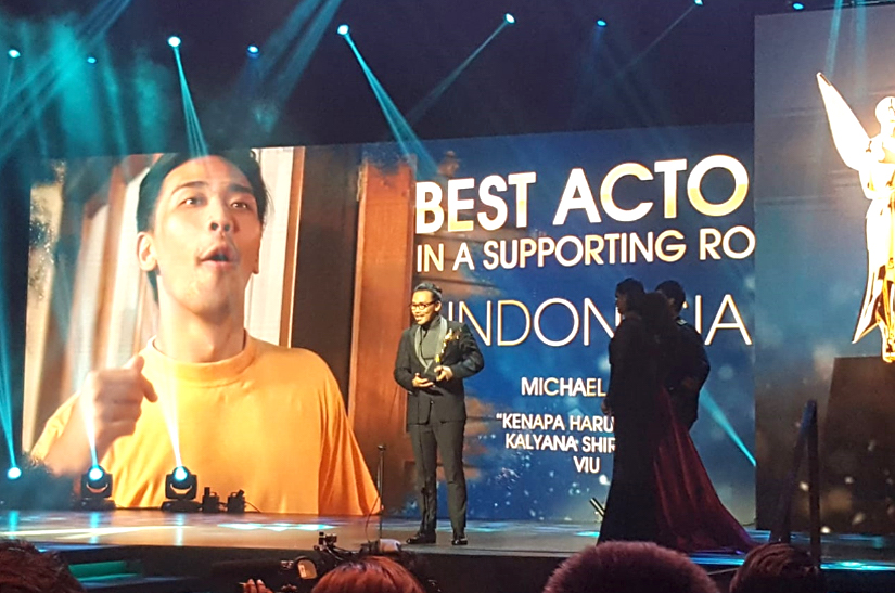 Singapore, December 2018